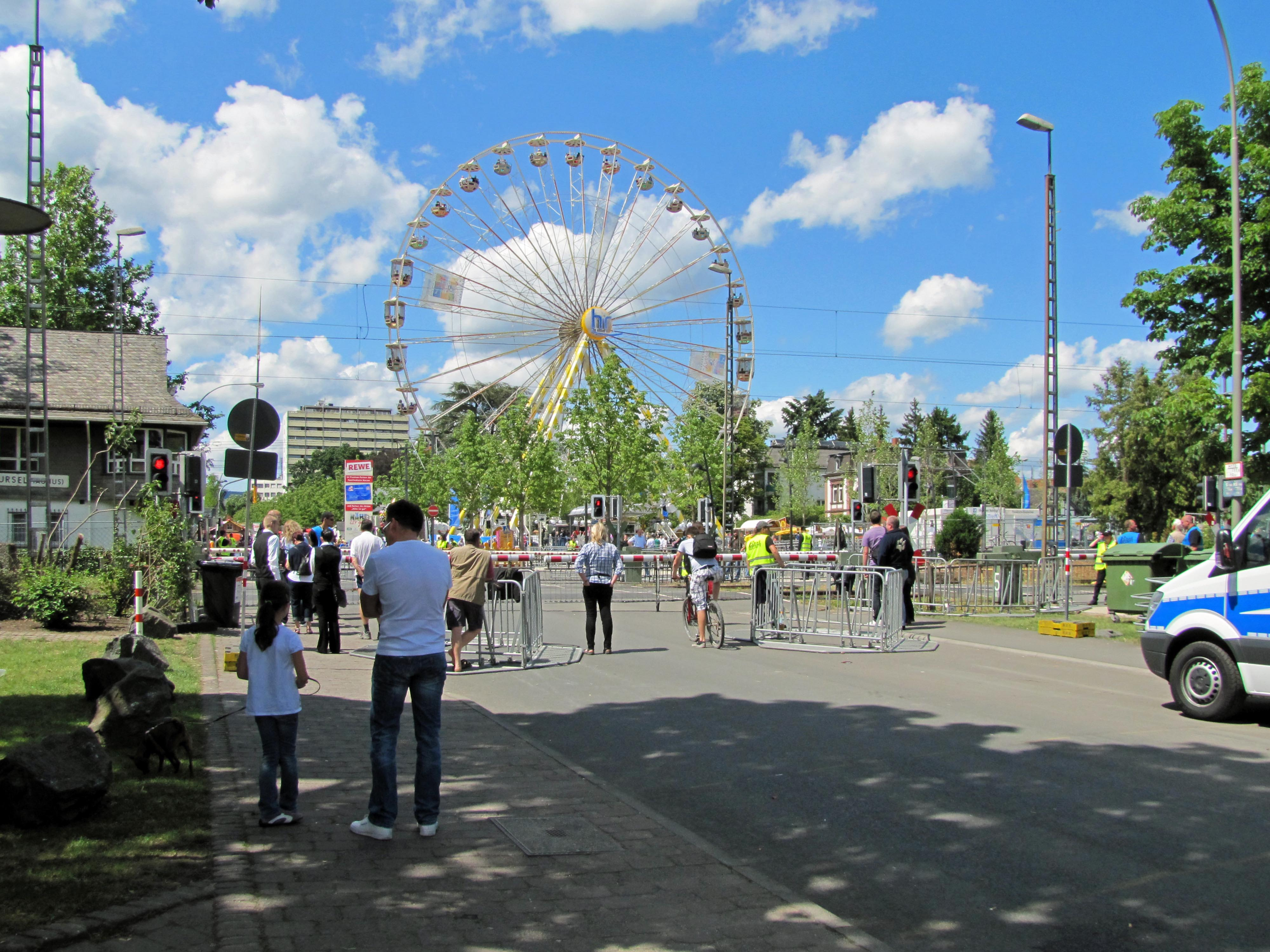 Ferris wheel at "Hessentag 2011" in Oberursel, Hochtaunuskreis, Germany.